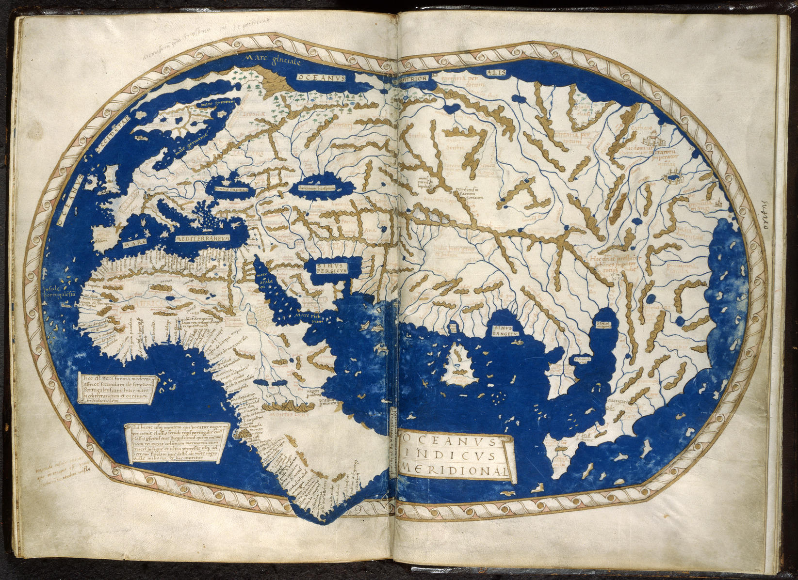 The world map of "Henricus Martellus Germanus" (Heinrich Hammer the German), Florence 1489. The first map with the Dragon Tail. It is a mixture of Ptolemy, recent Portuguese discoveries and unknown sources. Displays the Cape of Good Hope, rounded by Bartolomeo Dias in 1488.